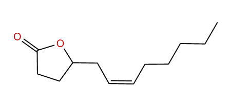 The skeletal structure of a (Z)-6-dodecen-4-olide molecule